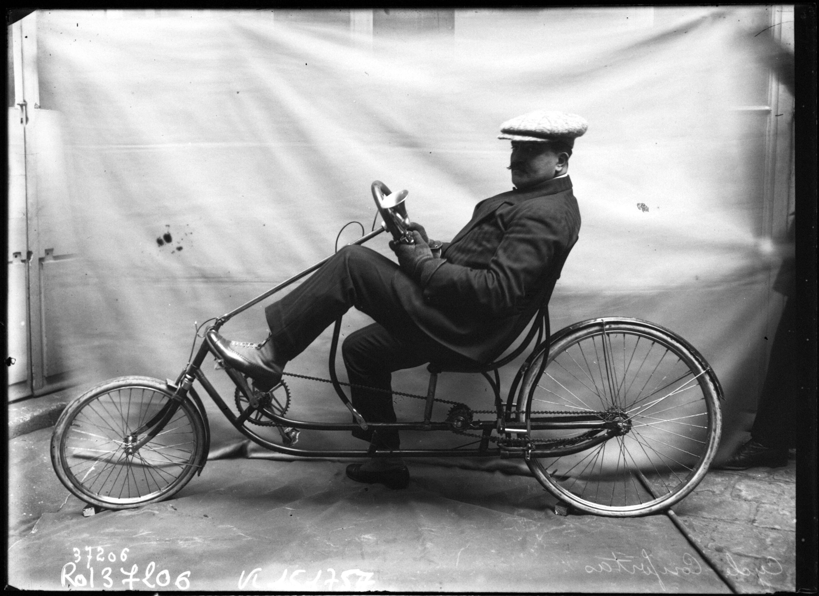 French recumbent bicycle,1914.